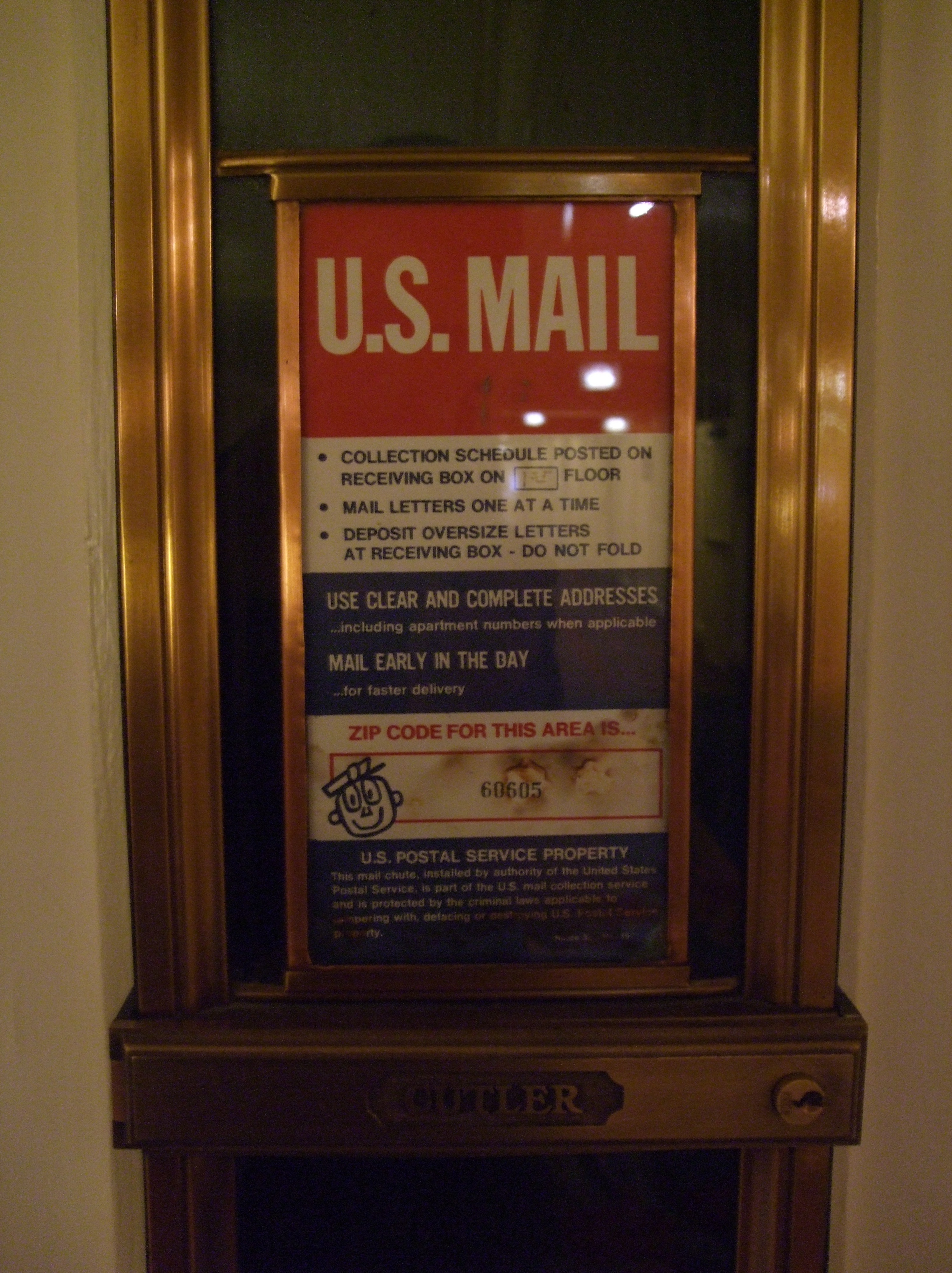 Cutler style Mail Chute for multi-story office buildings